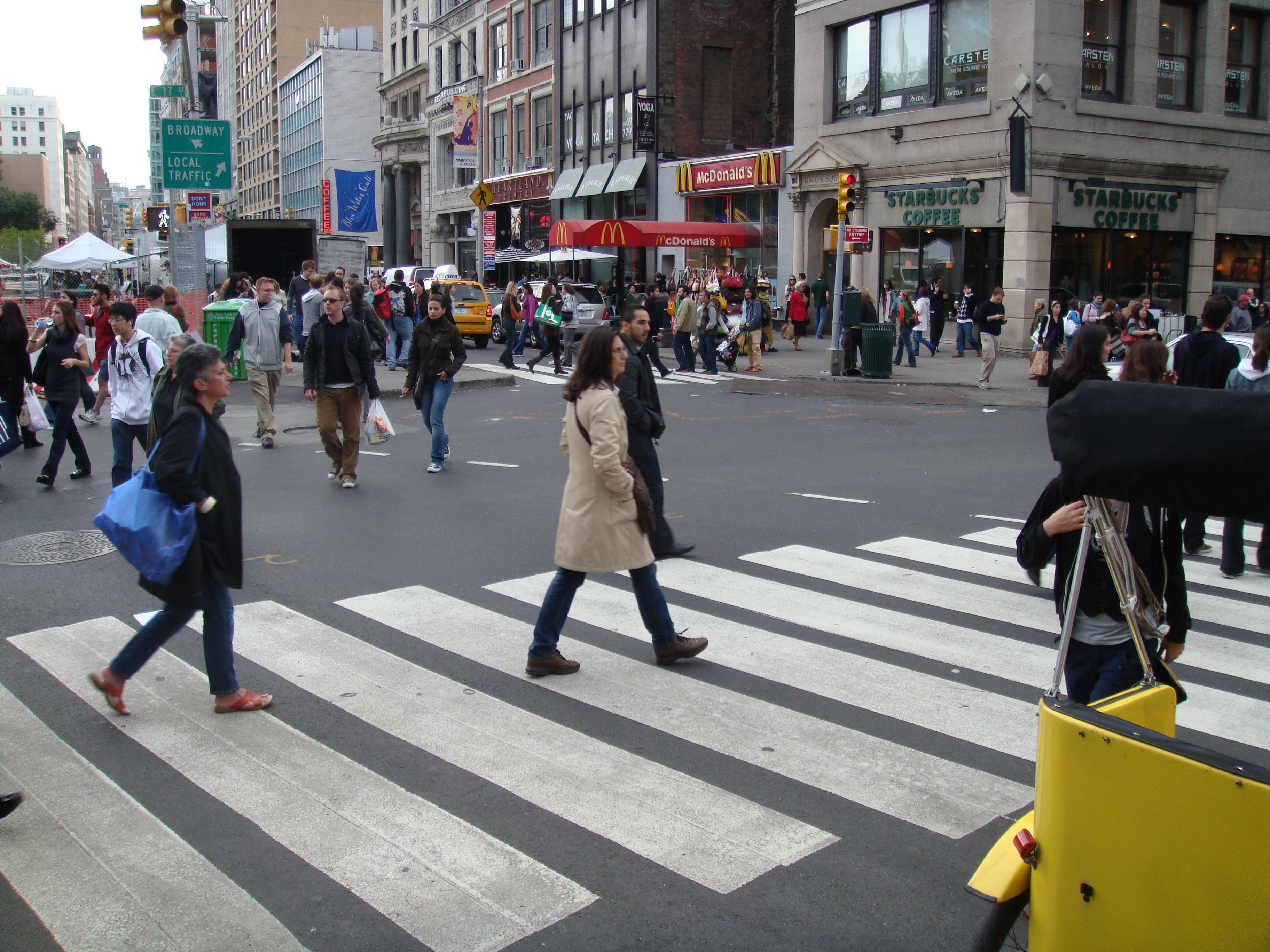 This photo is of Wikis Take Manhattan goal code E9, Barnes Dance at intersection of 17th St & Union Square.